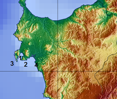 Topographic map of Northwest Sardinia.